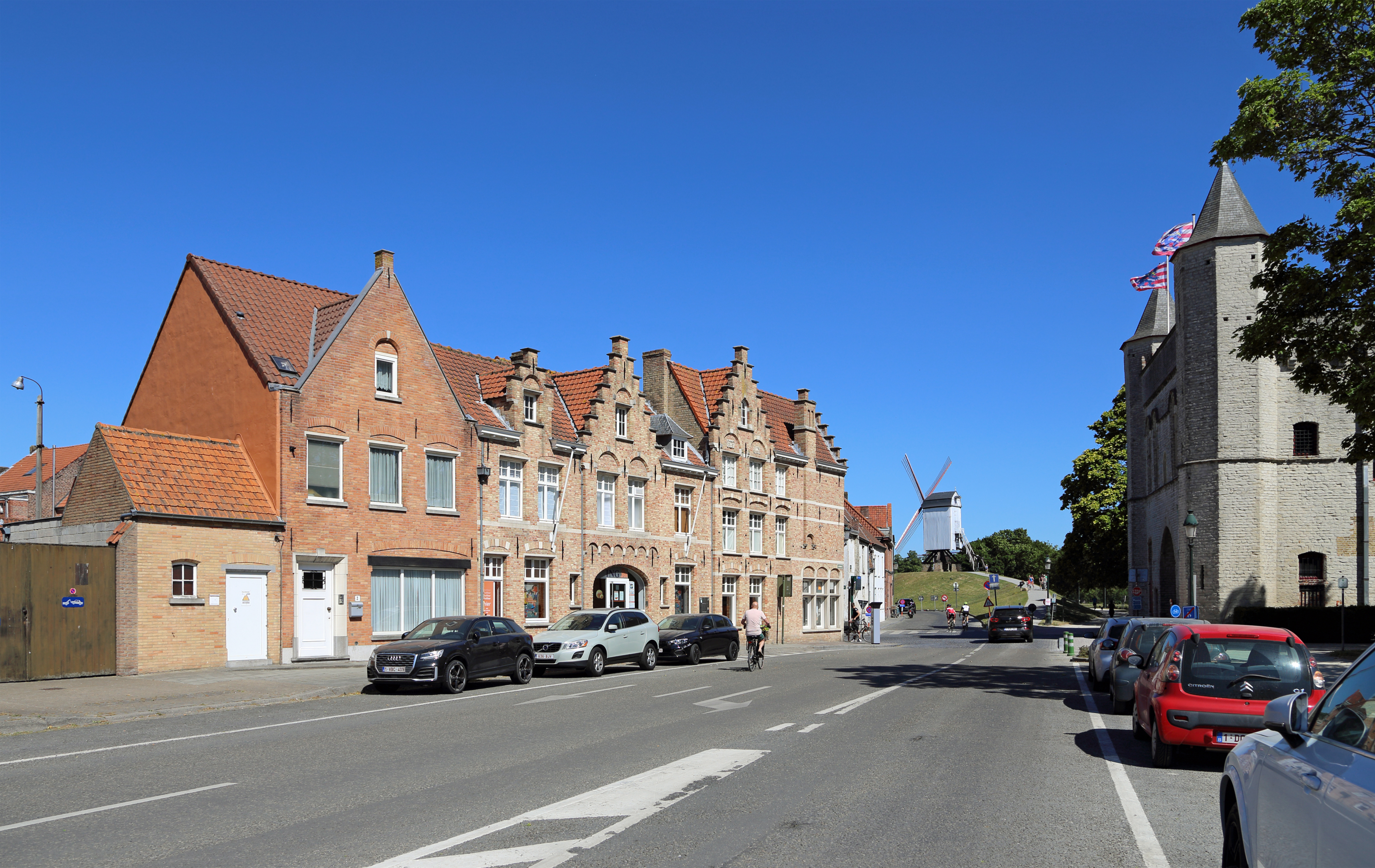 Bruges (Belgium): Kazernevest